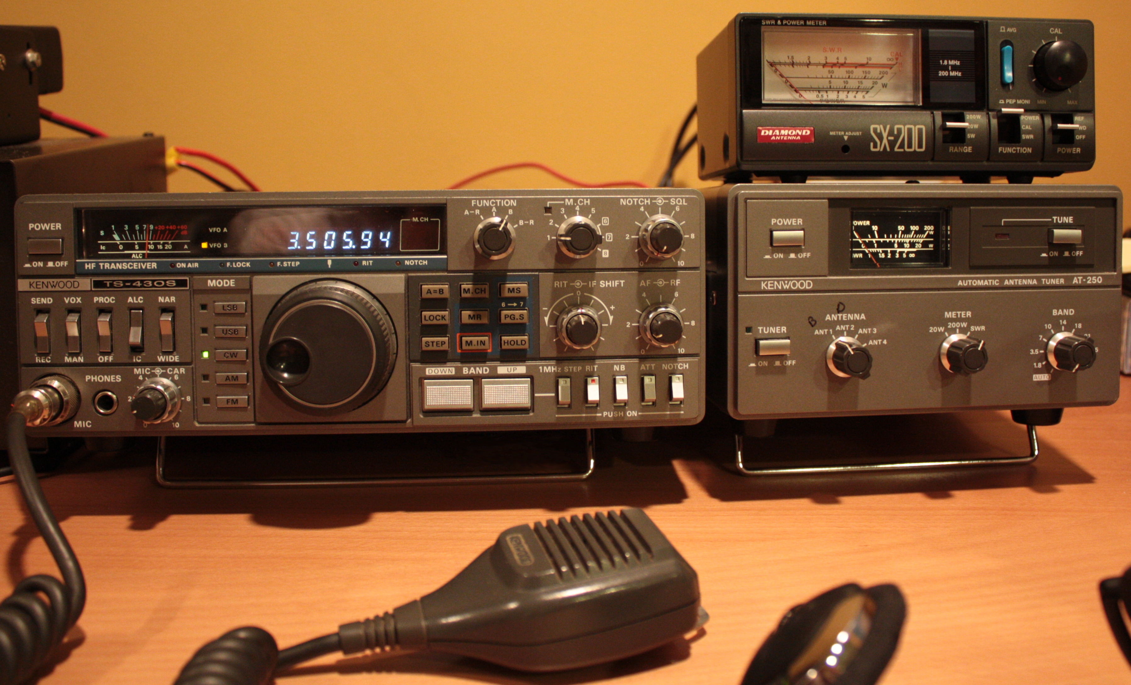 Kenwood TS-430S amateur radio HF transceiver, plus Kenwood AT-250 automatic antenna tuner.